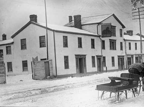 The Red Lion Inn on Yonge Street, just north of Bloor Street (Toronto, Canada). Constructed in 1808 by Daniel Tiers, the Red Lion Inn was one of the first establishments in the (then) suburban Village of Yorkville. Tiers had purchased the land (a block of Farm Lot 20 in the Second Concession from the Bay) from Loyalist George Playter. The Inn was built to serve the traffic coming into town from Davenport Road and Yonge Street, and played a significant role in the formation and evolution of Yorkville.